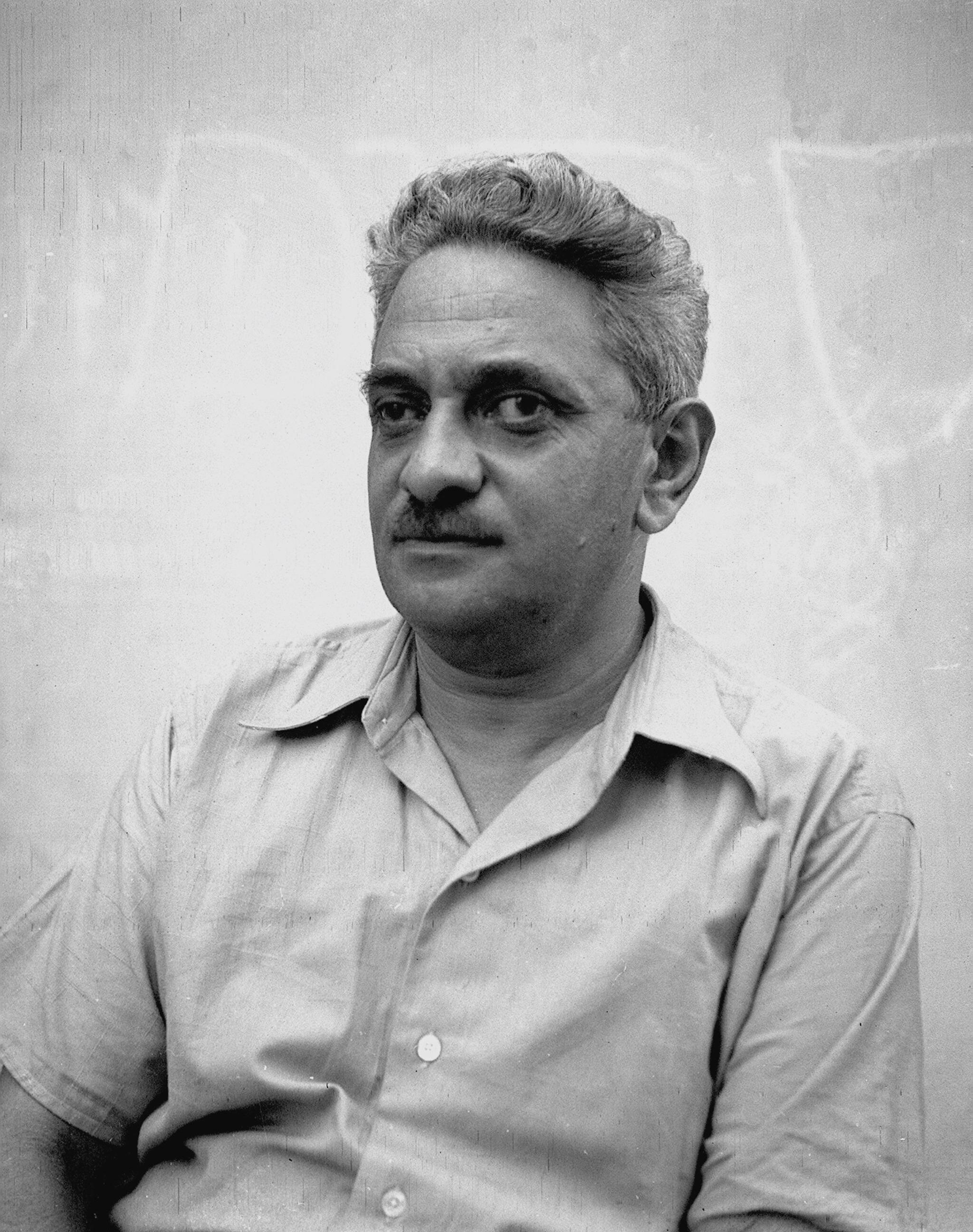 Hebrew author and journalist, Dr. Moshe Belinison